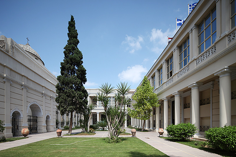 Greek orthodox patriarchy, Alexandria, Egypt